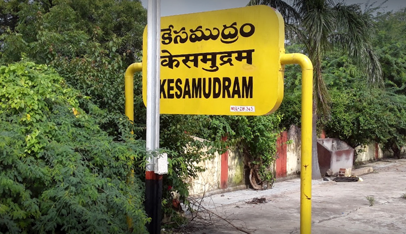 kesamudram Railway station inauguration 2018